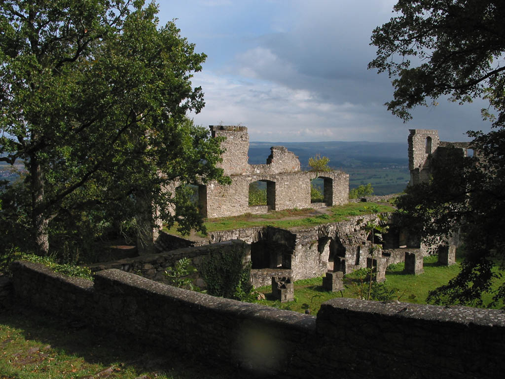 Hohentwiel, ruins of the castle